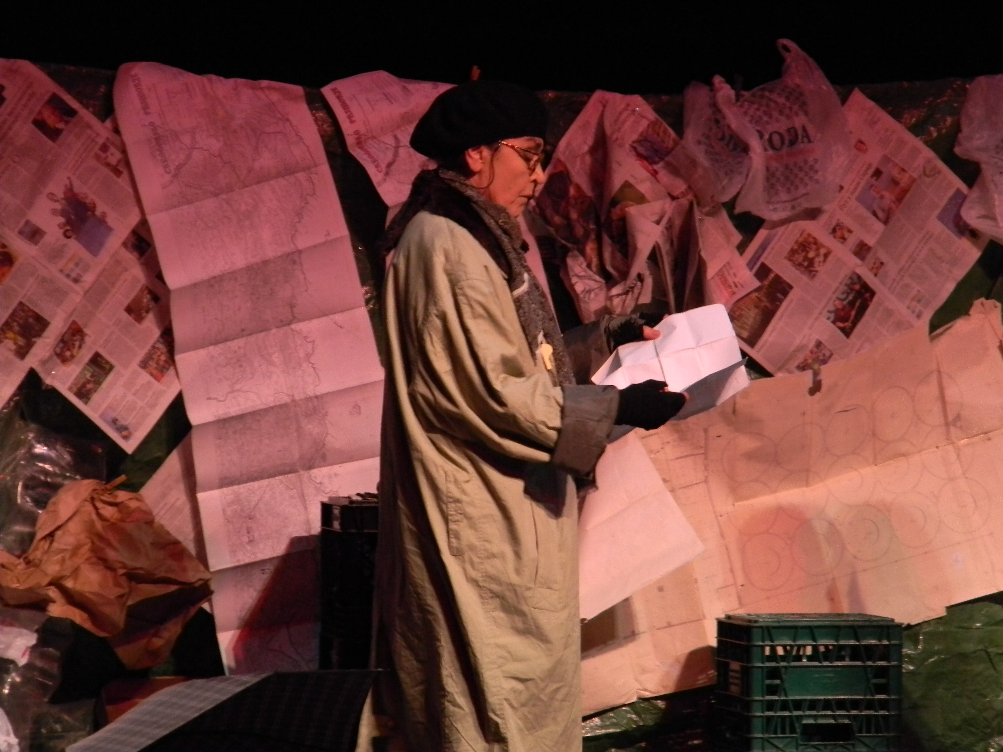 Scene from the play Slobodne žene balkanske, Toronto, Canada, 2013, Ljiljana Lašić